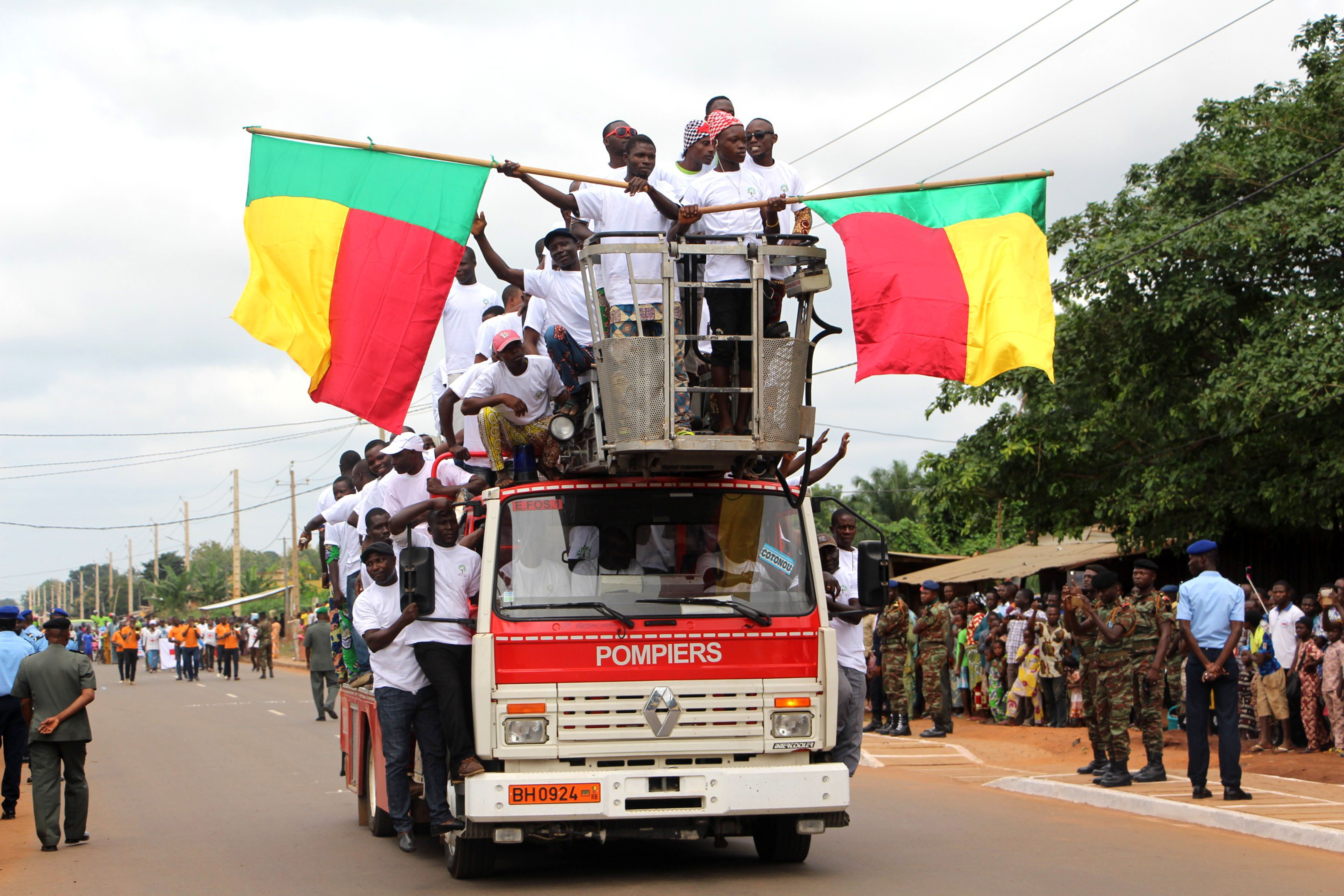 a Beninese independence day, civilians parade in their own way This is an image with the theme "Africa on the Move or Transport" from: Benin